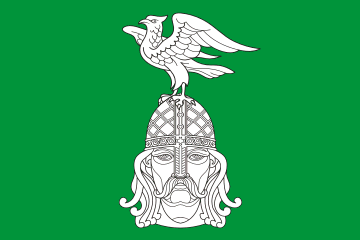 Flag of Karaevskoe rural settlement, Chuvashia, Russia